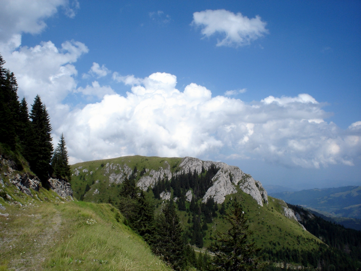 Orlove Stene (Eagles Rocks) or Žljeb on Kopaonik.